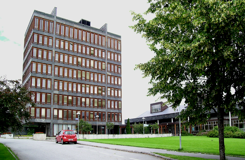 Modum town hall, Vikersund, Norway. Architect: Espen Paulsen.